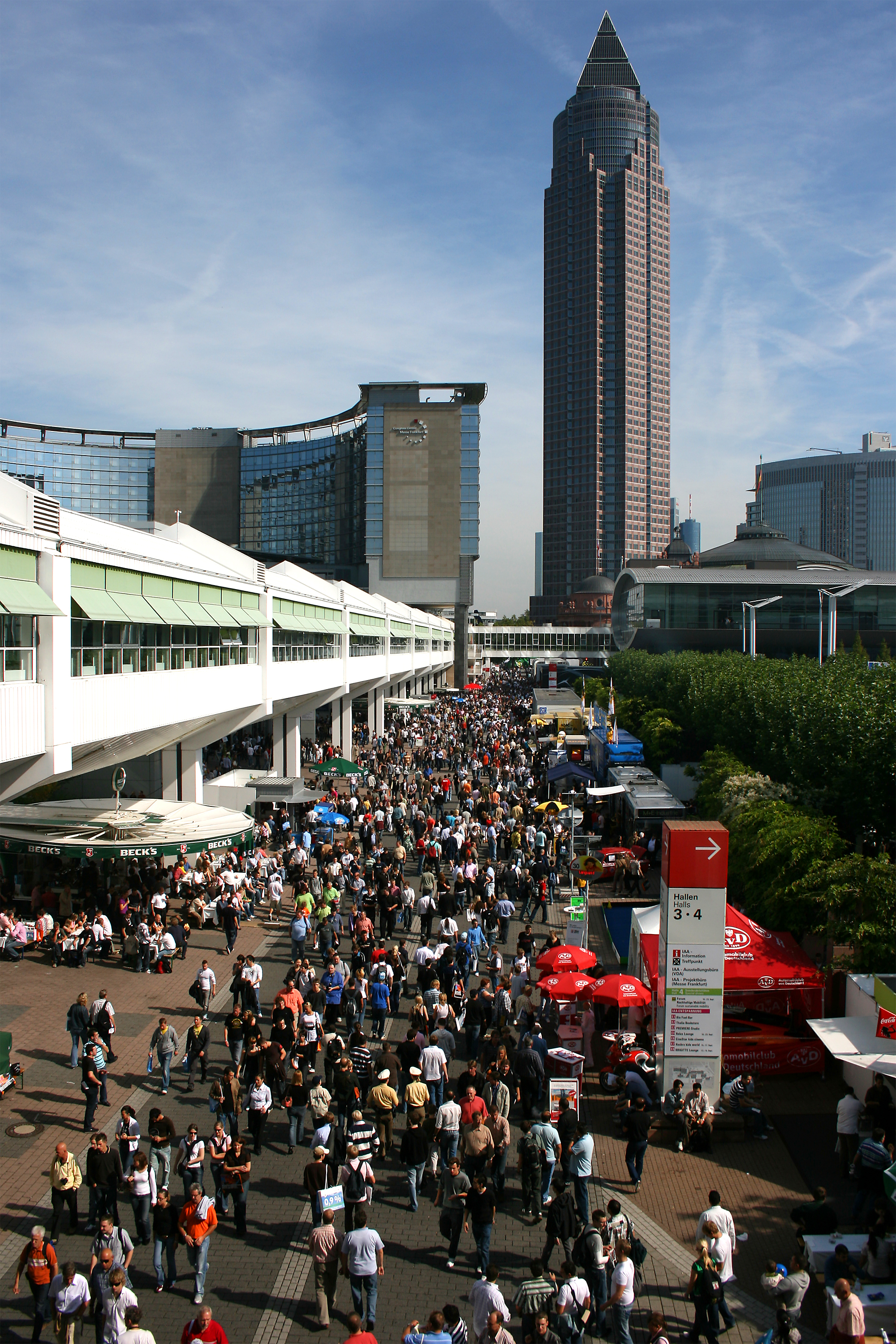 Frankfurt exhibition center during the Frankfurt Motor Show 2007 with the Messeturm (257m) in the back